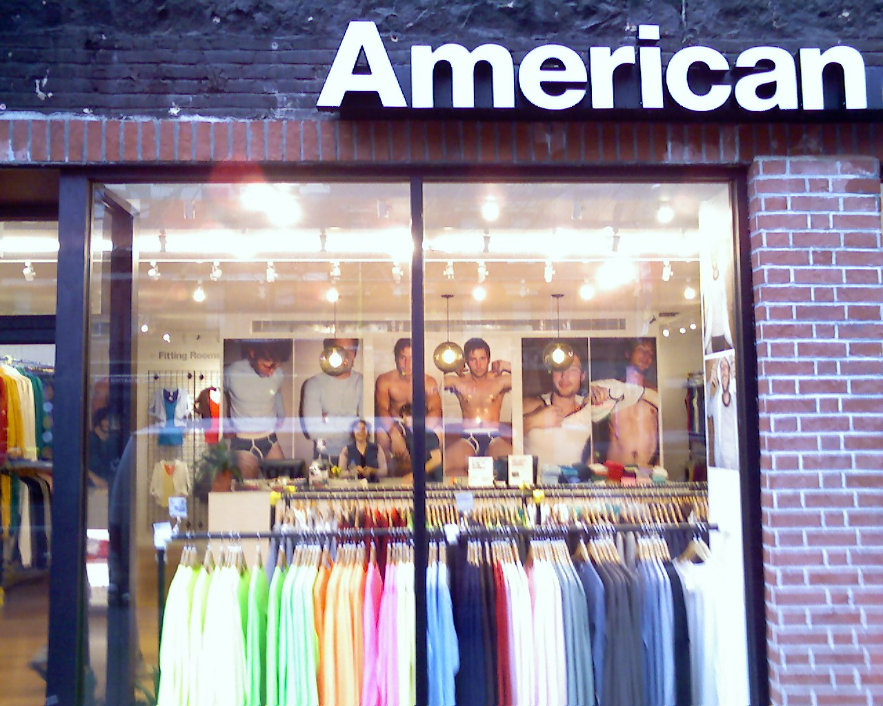 American Apparel